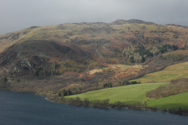 Gowbarrow and Ullswater Gowbarrow and Ullswater viewed from the summit of Hallin Fell.